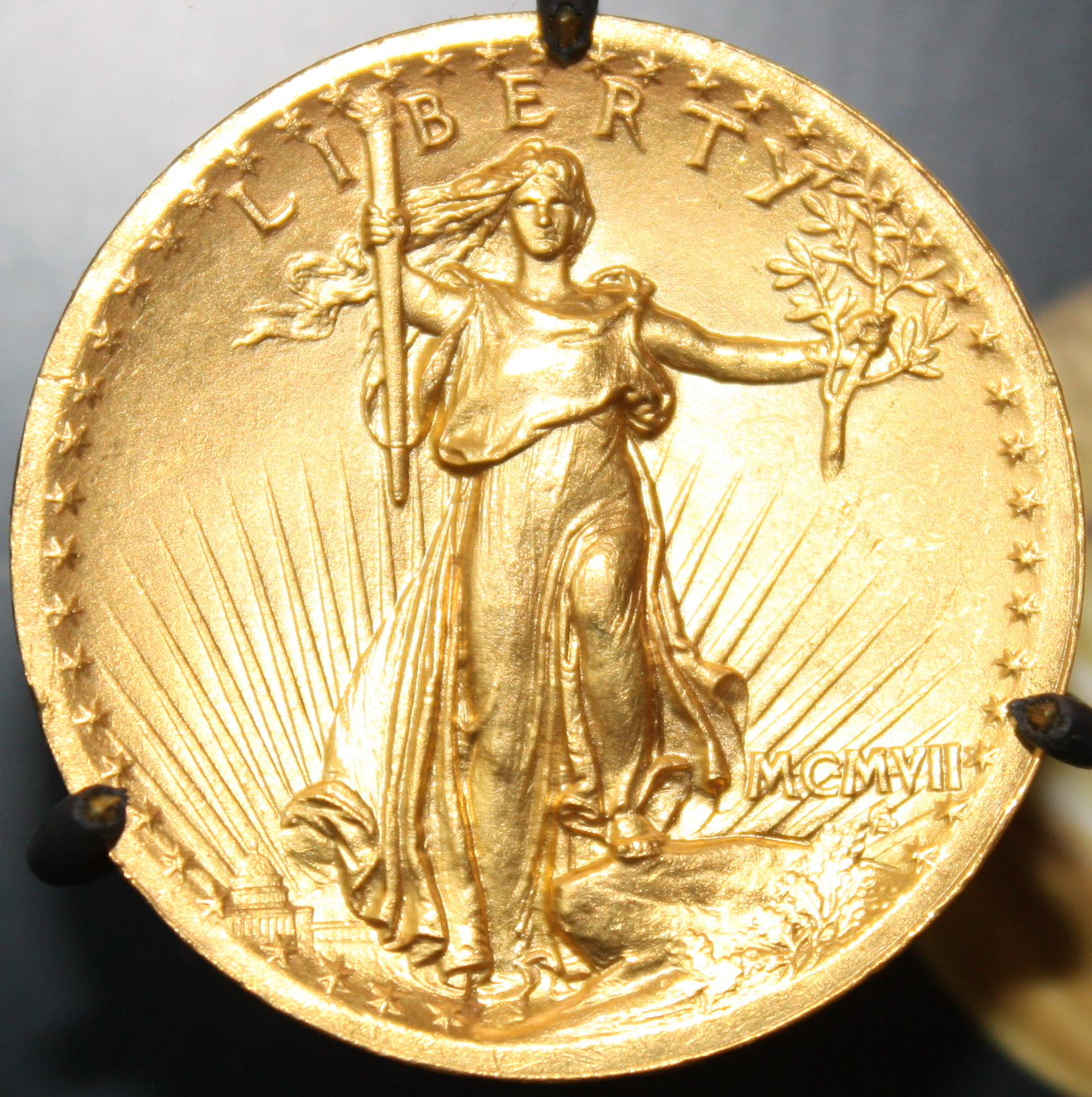 1907 "High relief" double eagle